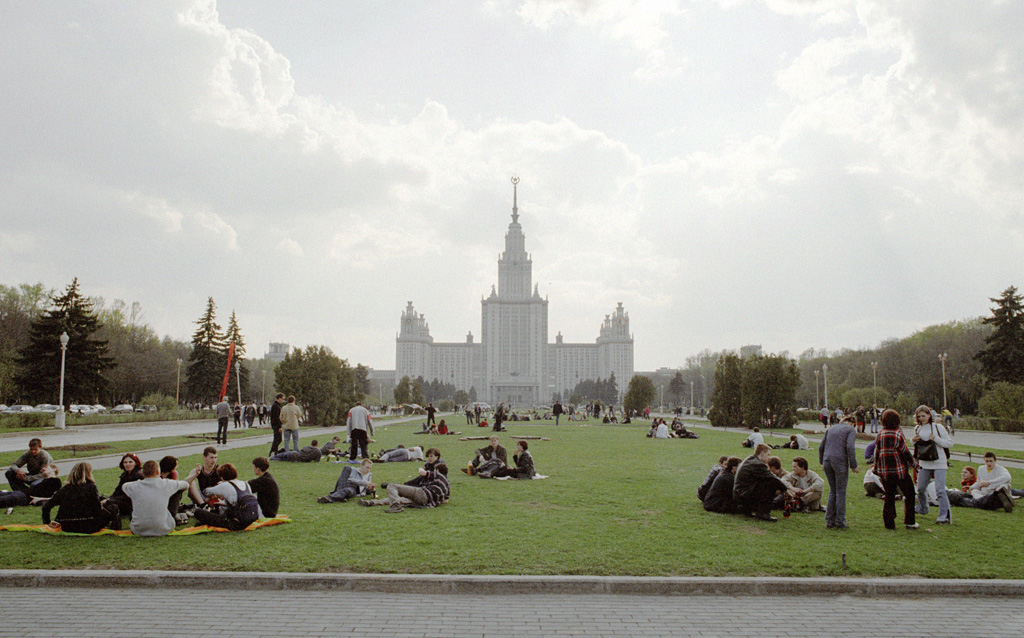 “Lomonosov Moscow State University on Lenin Hills”. Students in a public garden in front of the building of Lomonosov Moscow State University on Lenin Hills.